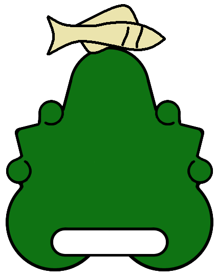 Glyph of Michhuahcan